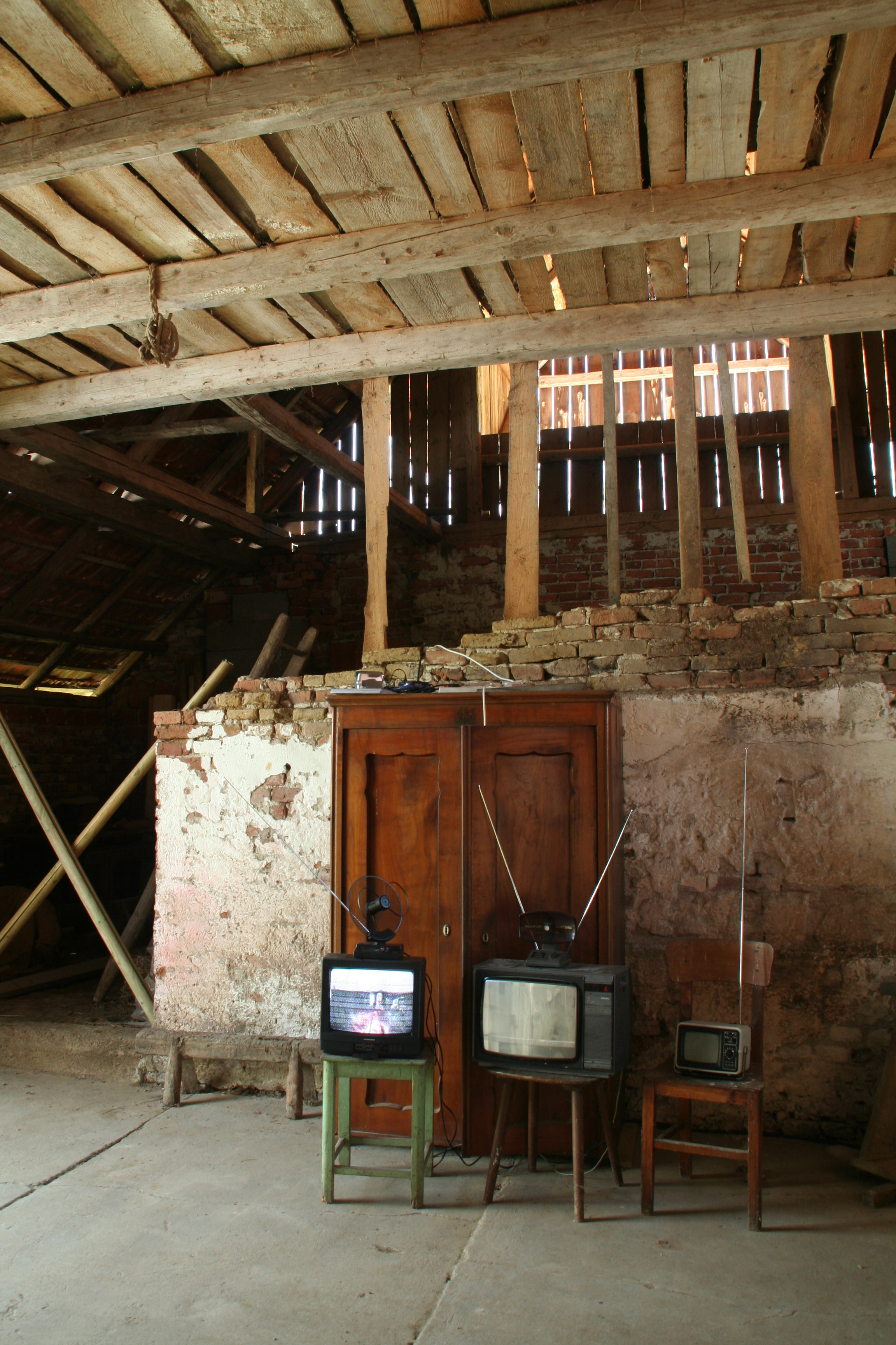 regionale08 in walkersdorf